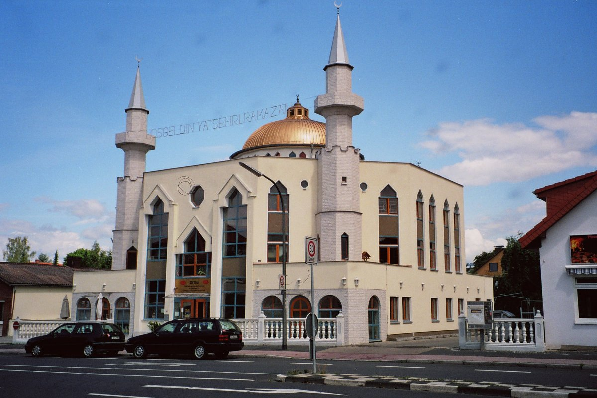 Mosque in Göttingen, Königsstieg